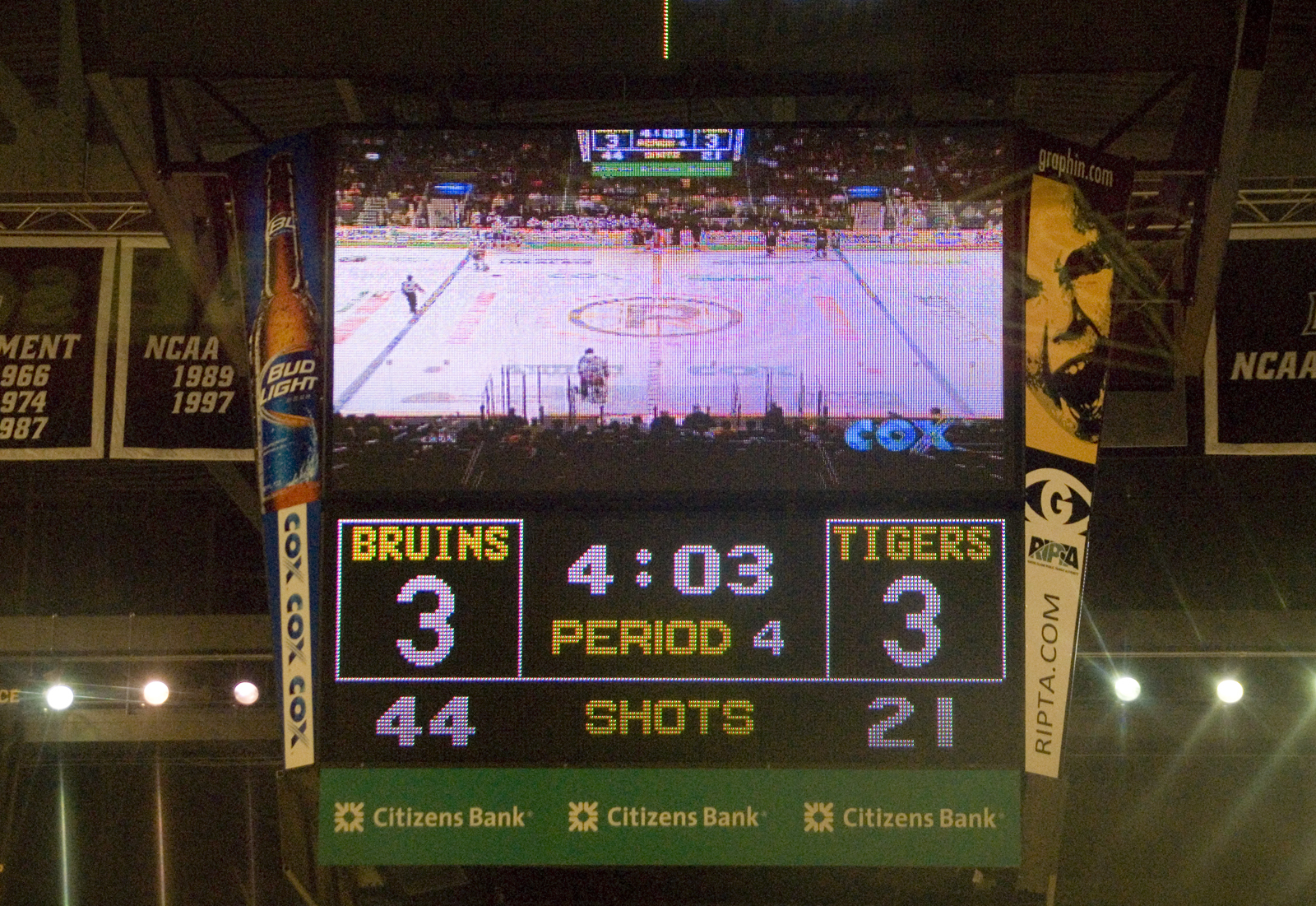 ERI_5695 Providence Bruins vs. Bridgeport Sound Tigers. American Hockey League (AHL) Taken by Sarah Connors on March 11, 2011 P-Bruins won in a shootout, 4-3. This photo also appears in Sarah Connors' Flickr Set "Providence vs. Bridgeport 3/12/11" (Set: 96)